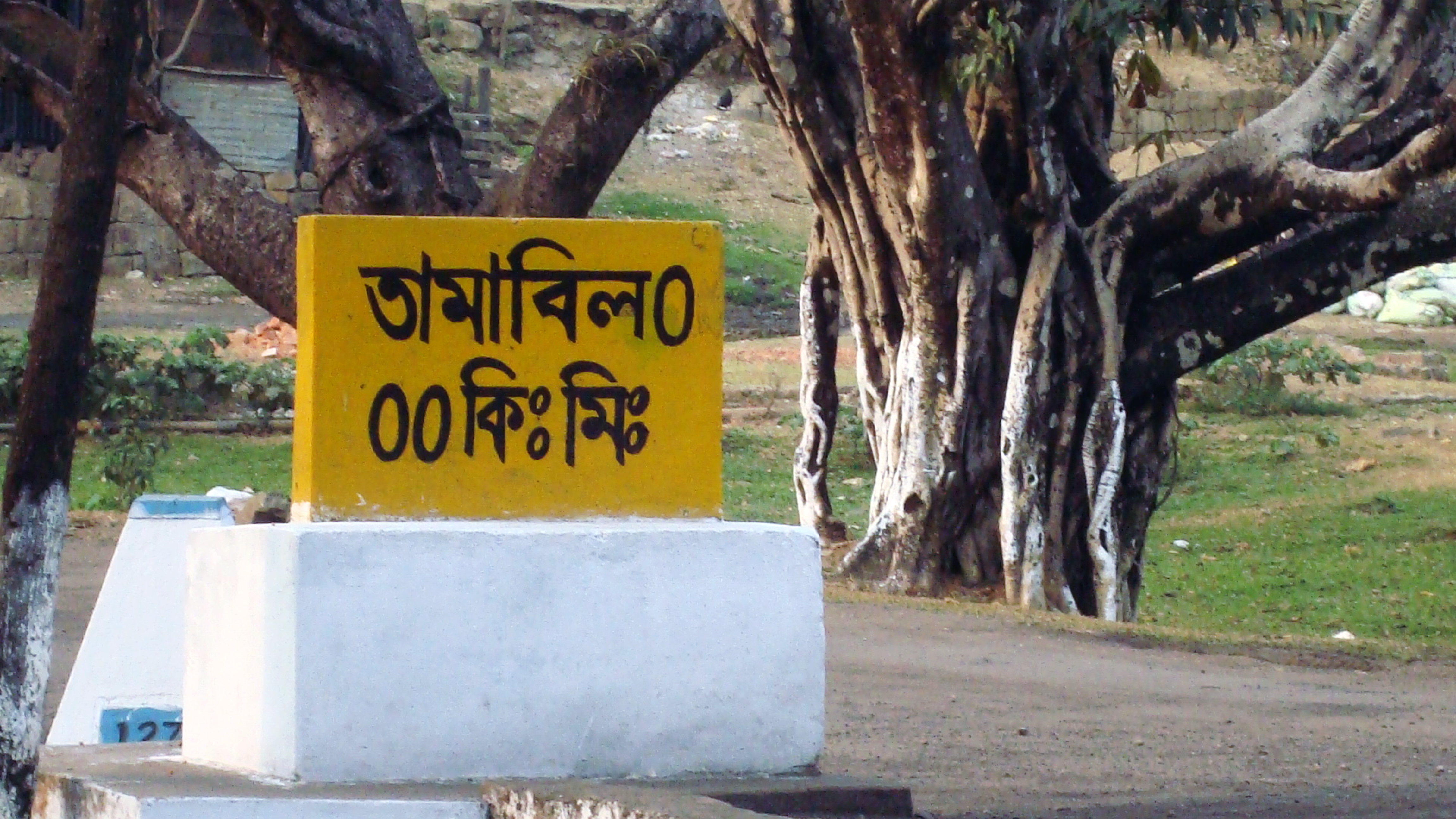 Tamabil border crossing at Sylhet, Bangladesh